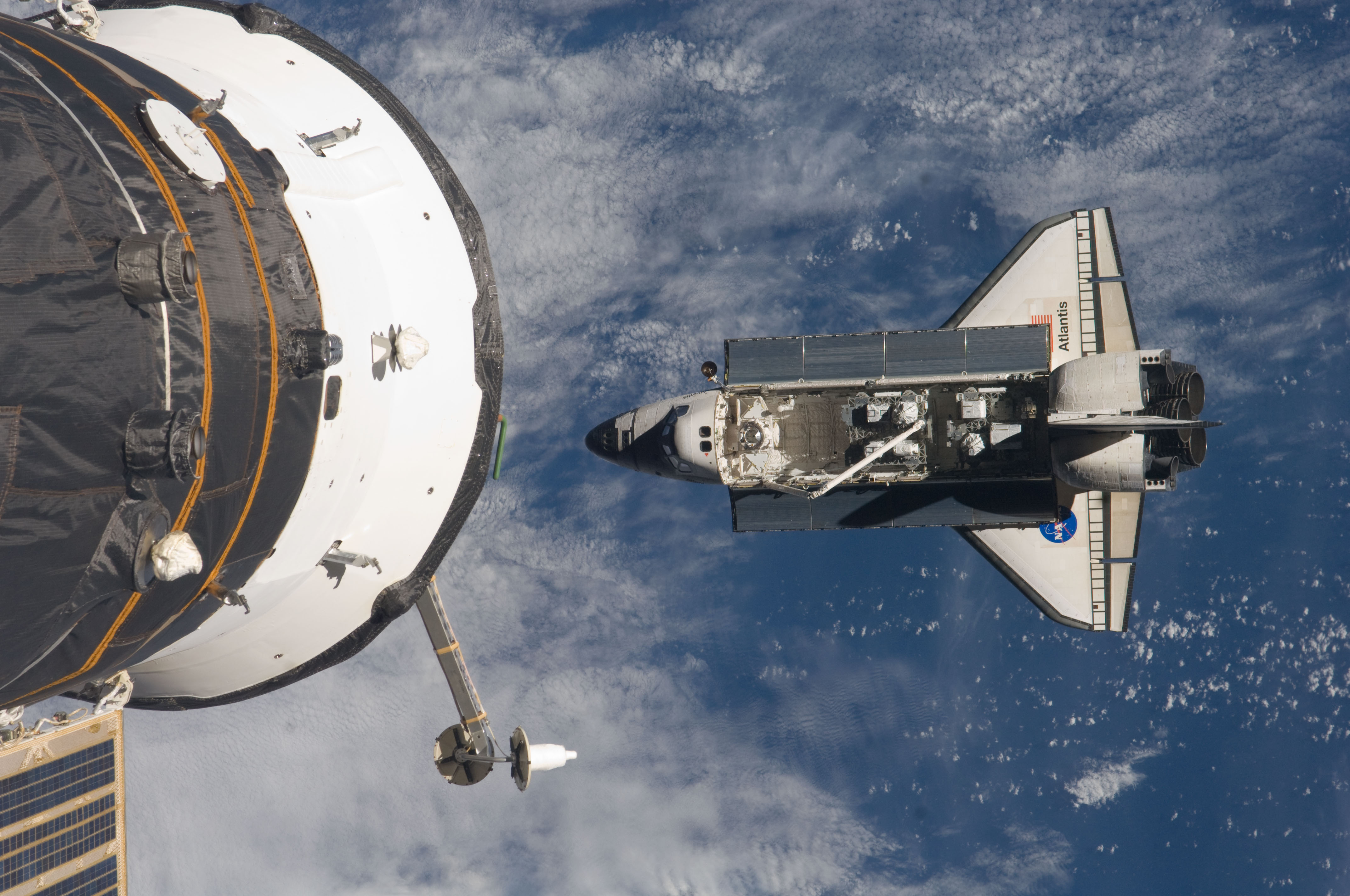 Backdropped by a blue and white part of Earth, Space Shuttle Atlantis is featured in this image photographed by an Expedition 21 crew member as the shuttle approaches the International Space Station during STS-129 rendezvous and docking operations. Docking occurred at 10:51 a.m. (CST) on Nov. 18, 2009. A Russian spacecraft docked to the station is at left.